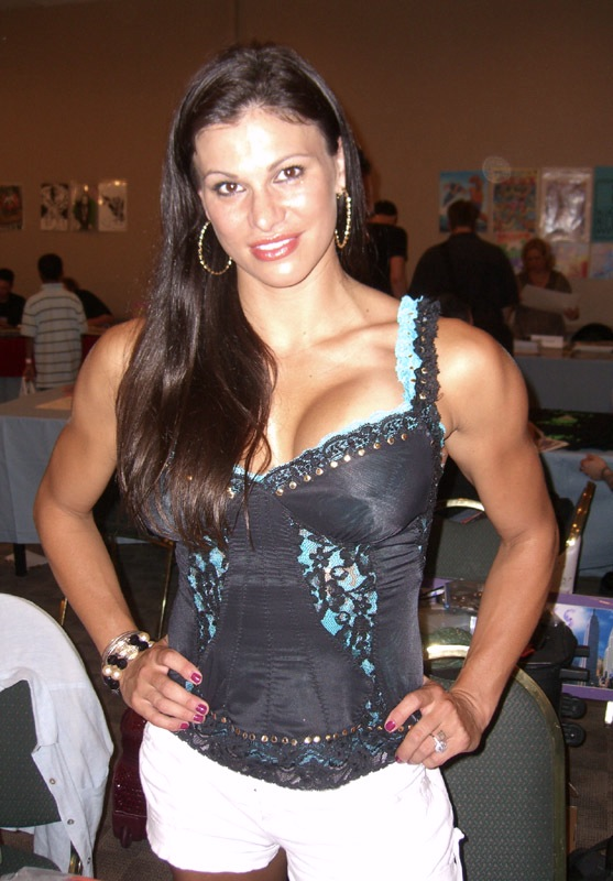 Professional wrestler Jackie Haas at the Big Apple Summer Sizzler in Manhattan, June 13, 2009.